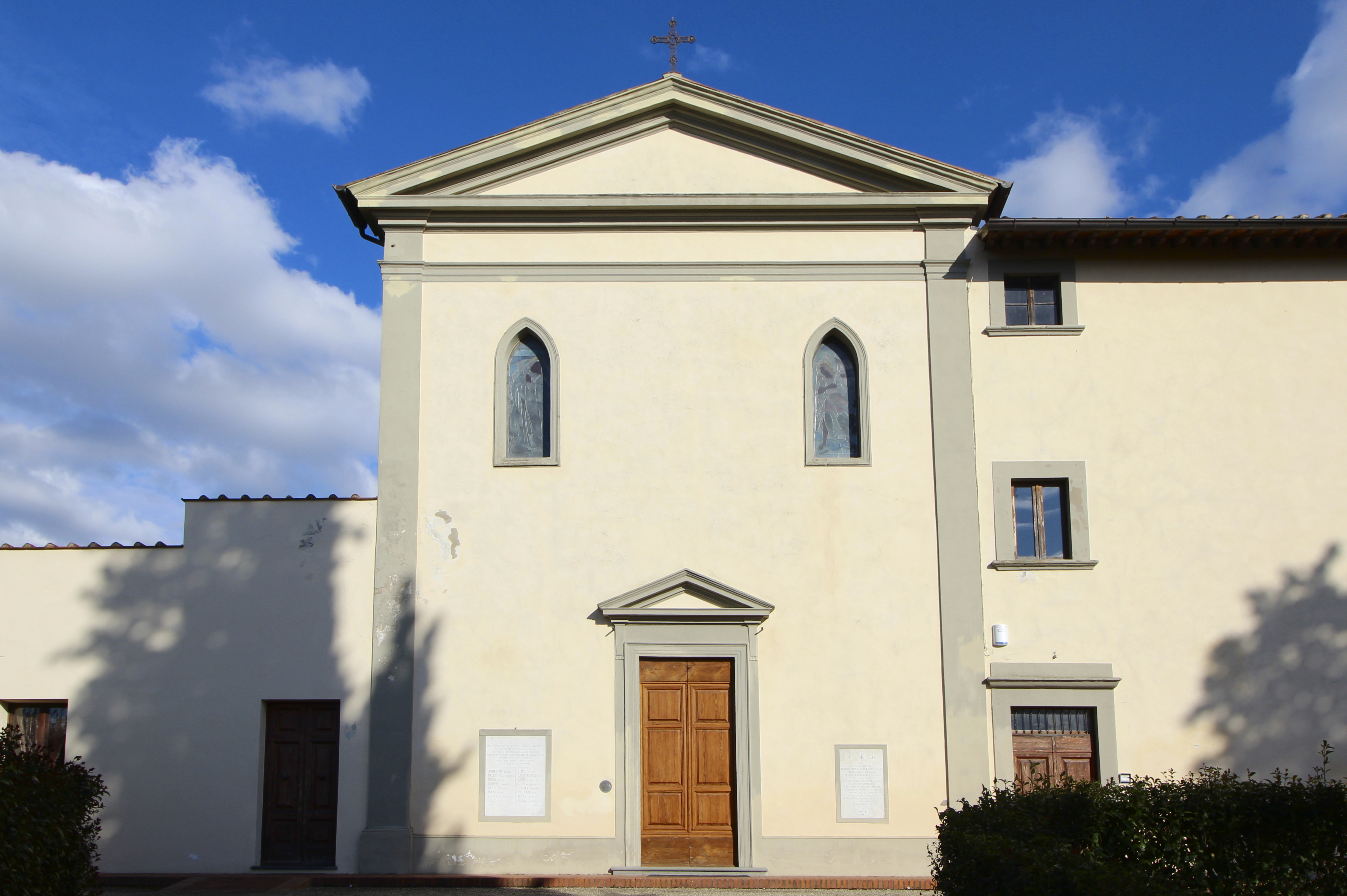 Church San Michele Arcangelo, Sant'Angelo a Montorzo, hamlet of San Miniato, Province of Pisa, Tuscany, Italy